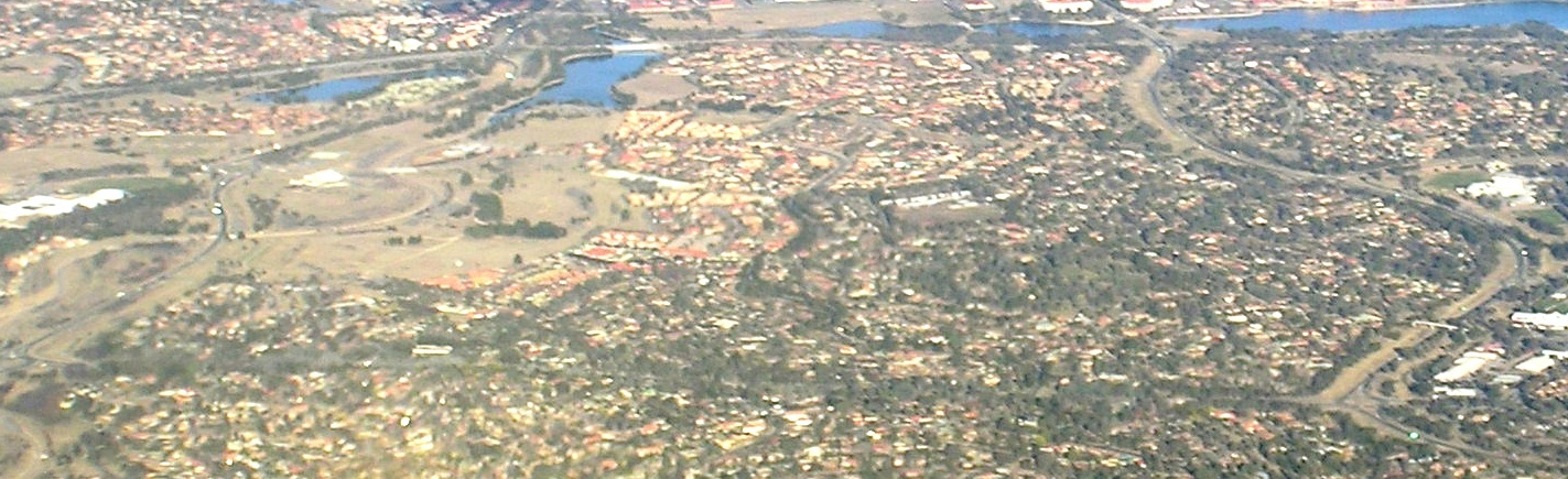 Areal photo of Monash ACT from the east morning Sun